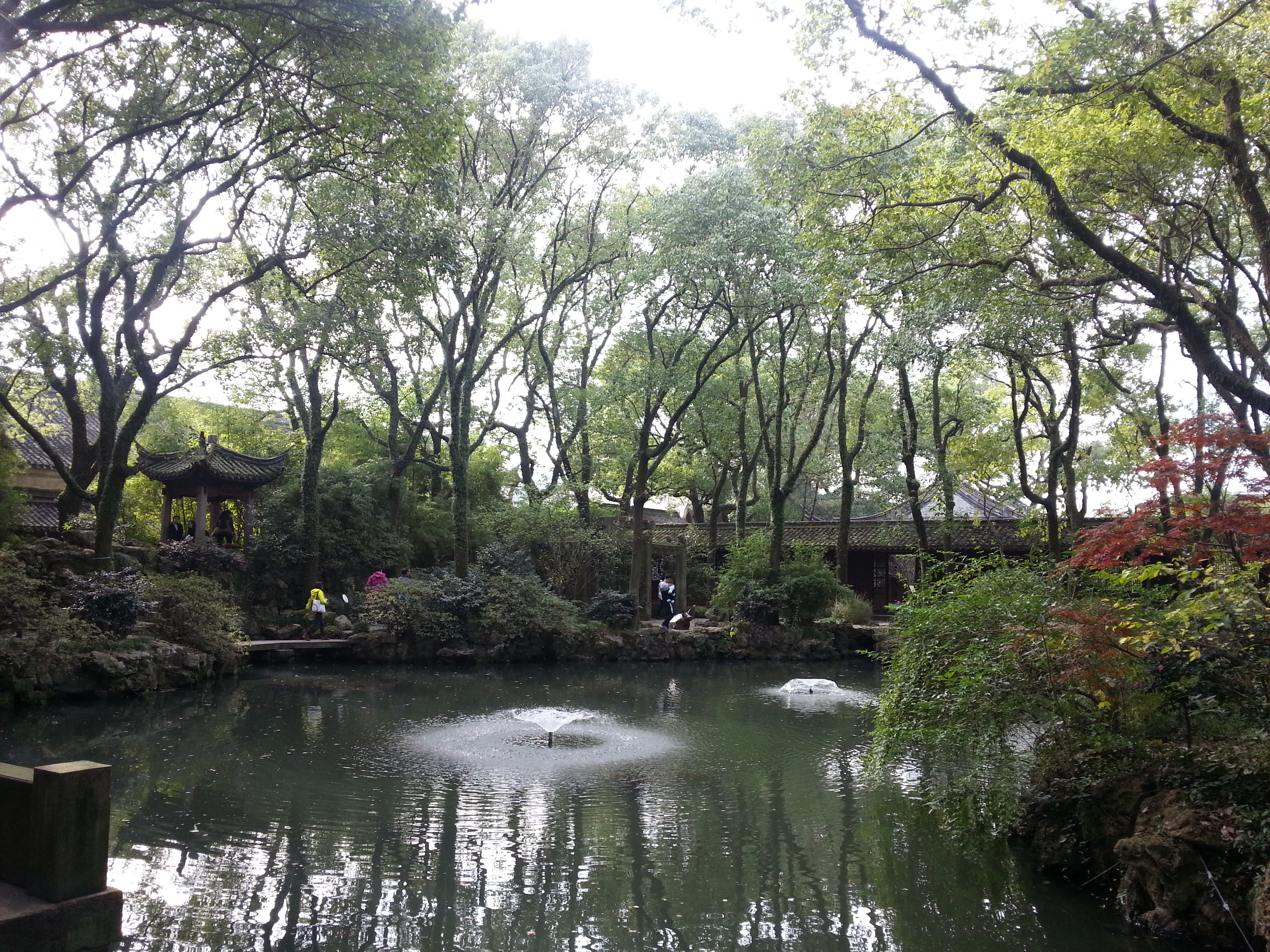 This is the garden within Tianyi Ge.